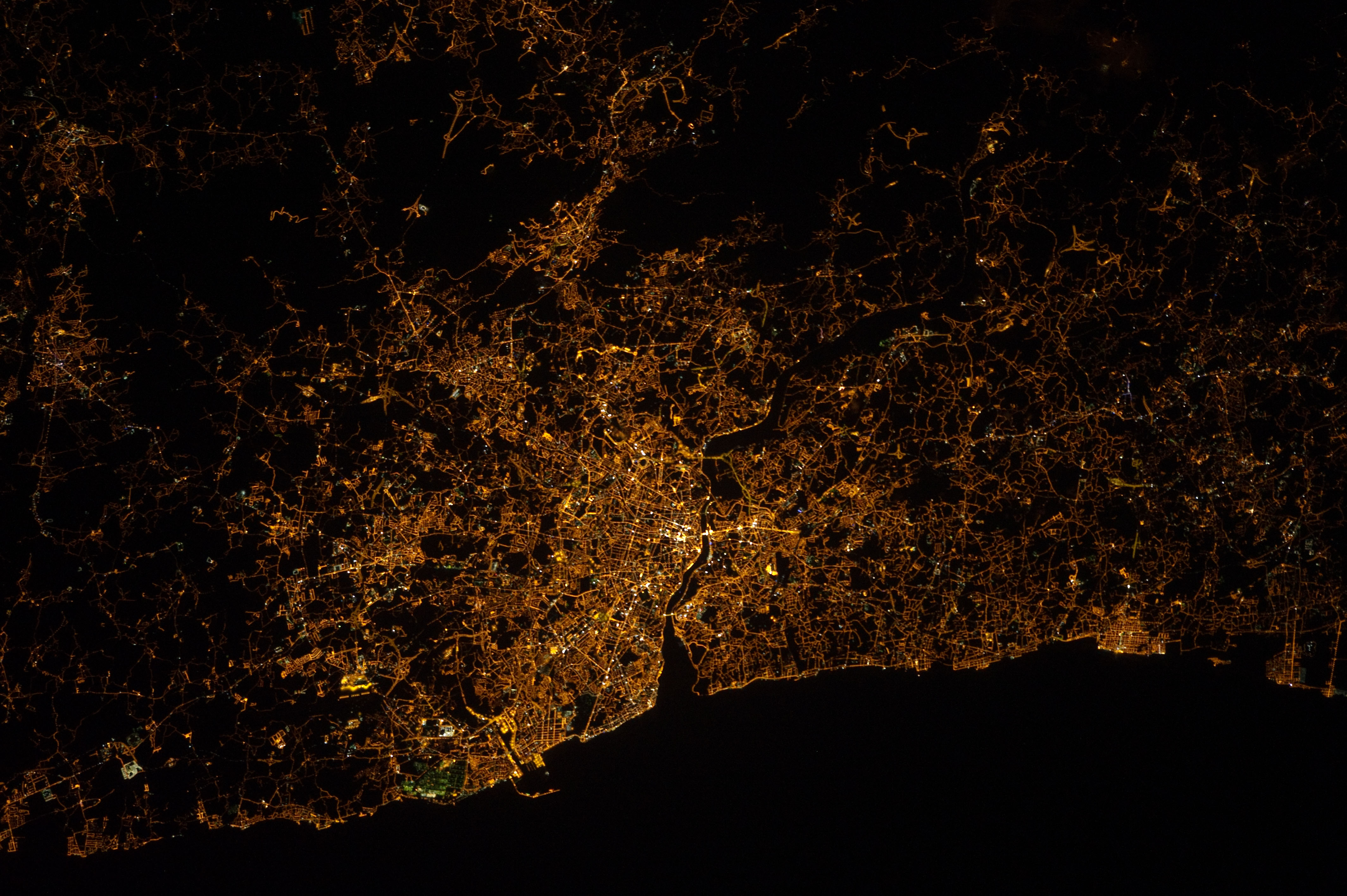 One of the Expedition 32 crew members aboard the International Space Station recorded this nighttime image of Portugal featuring Porto (left) and Vila Nova de Gaia (right) astride the Douro River on the northwestern coast. For orientation purposes, the top is almost due east.